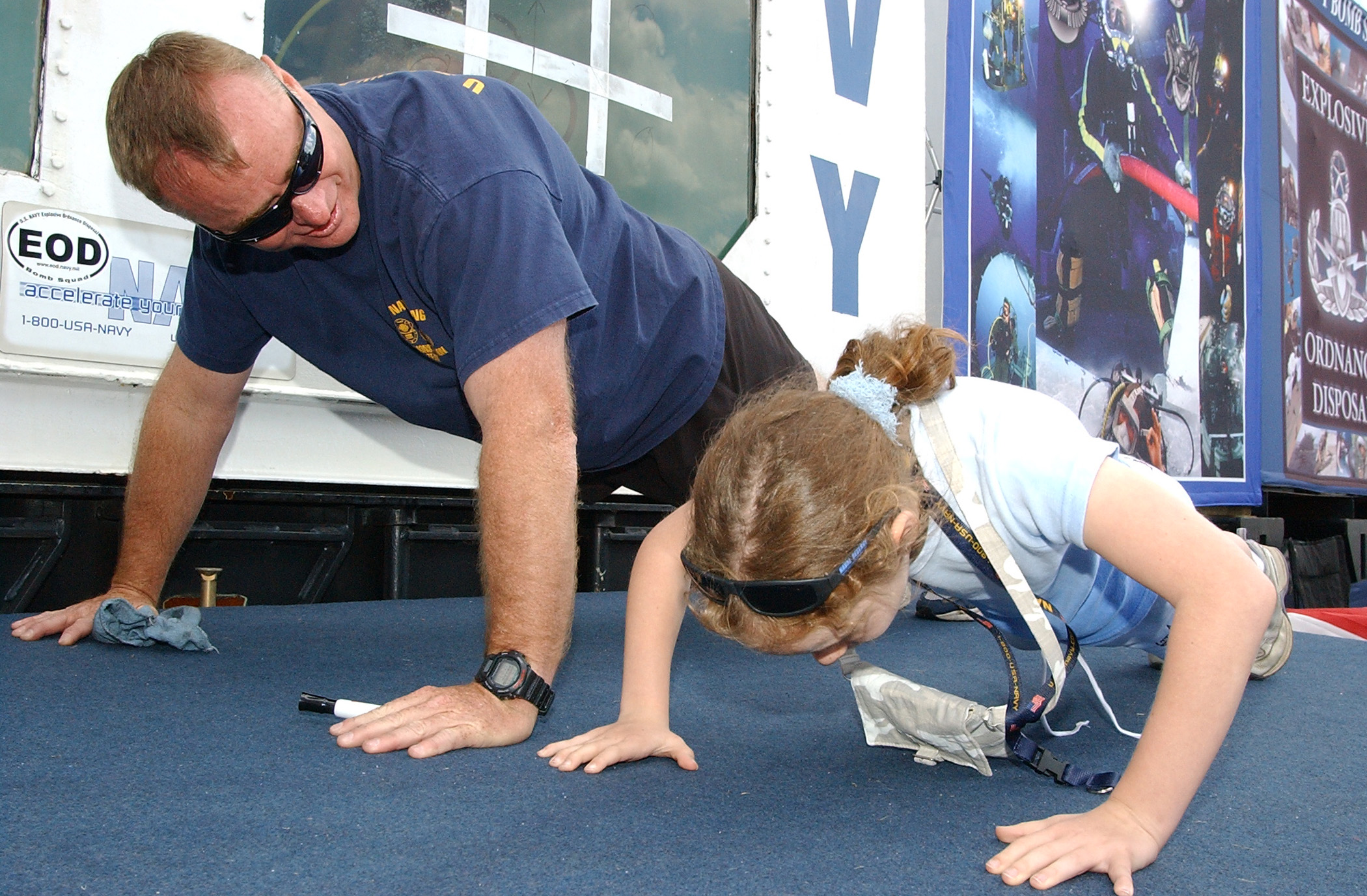 Philadelphia, Pa. (May 29, 2005) - Senior Chief Aviation Ordnanceman Ron Mitchell, a recruiter for the Navy Explosive Ordnance Disposal (EOD) community, shows a young fan how to do a Navy push-up at the Naval Air Station Willow Grove Joint Reserve Base air show. The EOD display featured a dive tank with a diver inside, who played tic-tac-toe with the children. More than half a million spectators came to the show, which also featured the U.S. Navy Flight Demonstration Team, the “Blue Angels”, F/A-18 simulator rides and many other military and civilian static displays. U.S. Navy photo by Chief Journalist Monica Hallman (RELEASED)